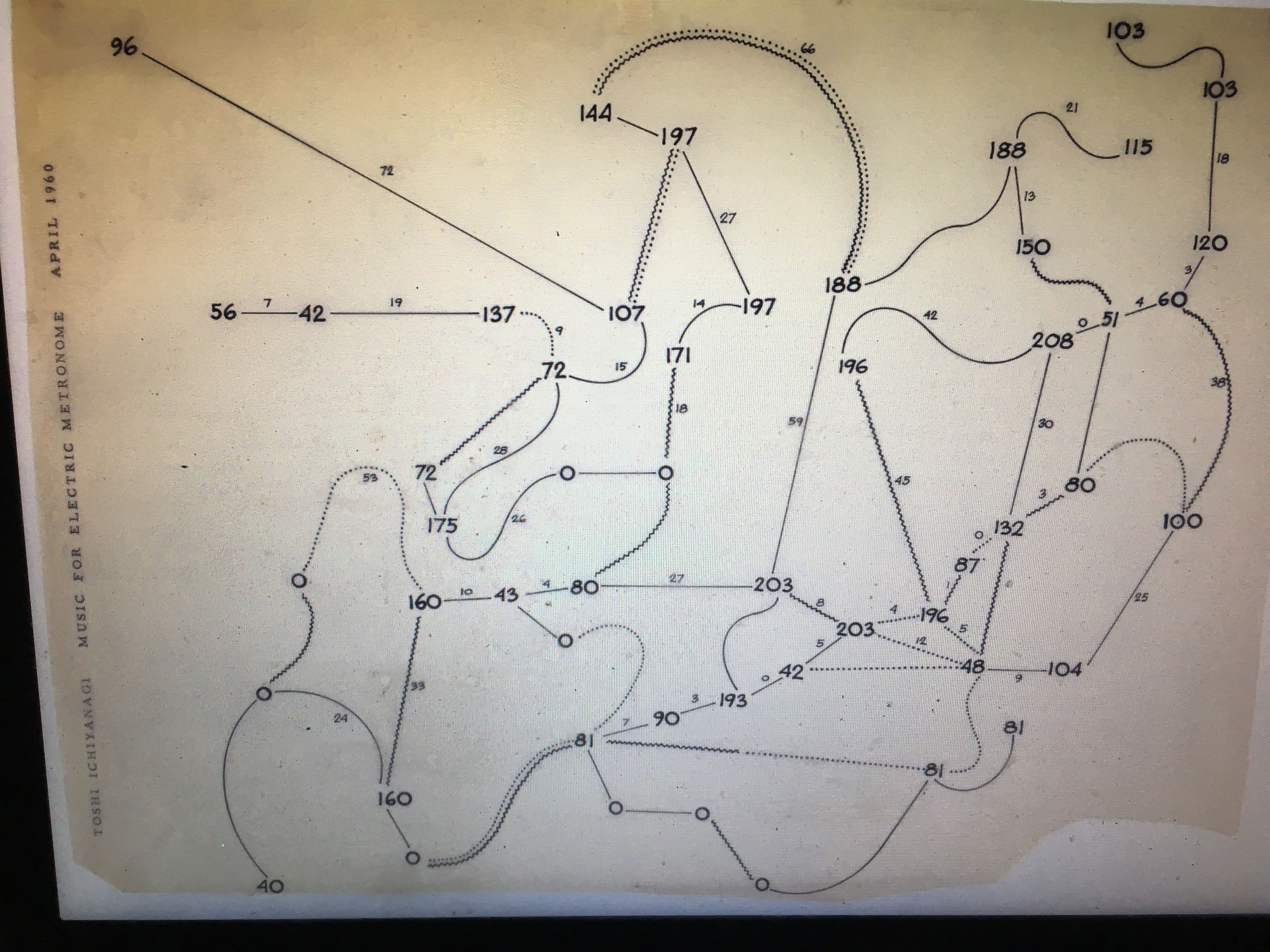 Picture of Toshi Ichiyanagi's score for Music for Electric Metronomes (1960)